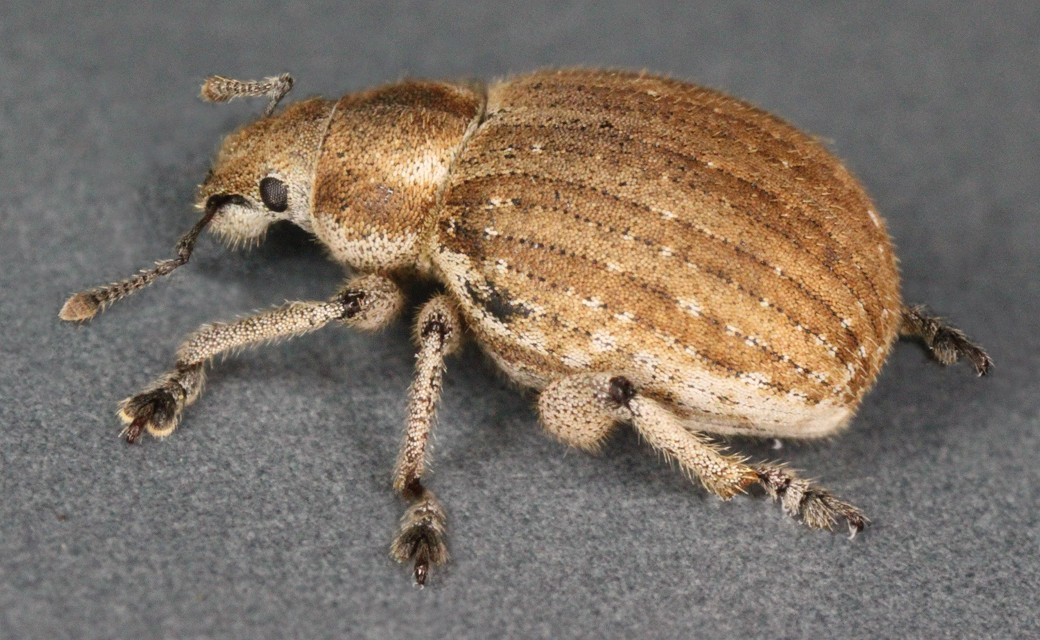 Philopedon plagiatum, Dyffryn, North Wales, May 2010 (1)